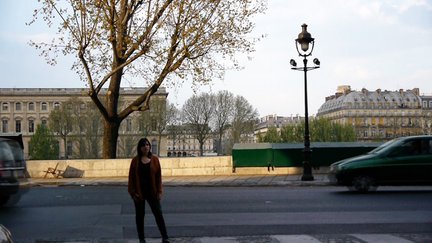 filmstill from Carme Nogueira´s video "Yo os he comprendido" 2011